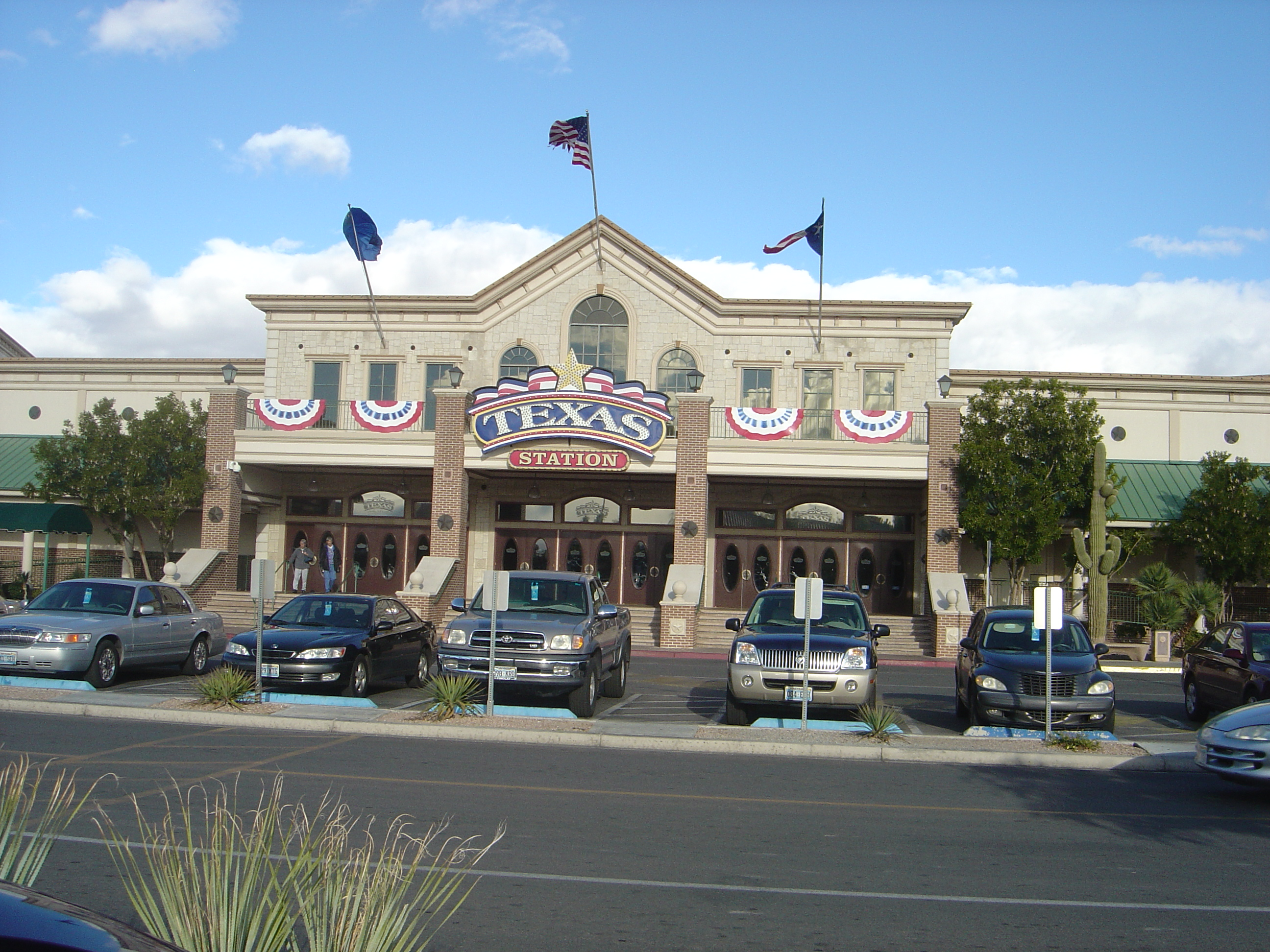 Entrance to the Texas Station hotel-casino in North Las Vegas, Nevada.